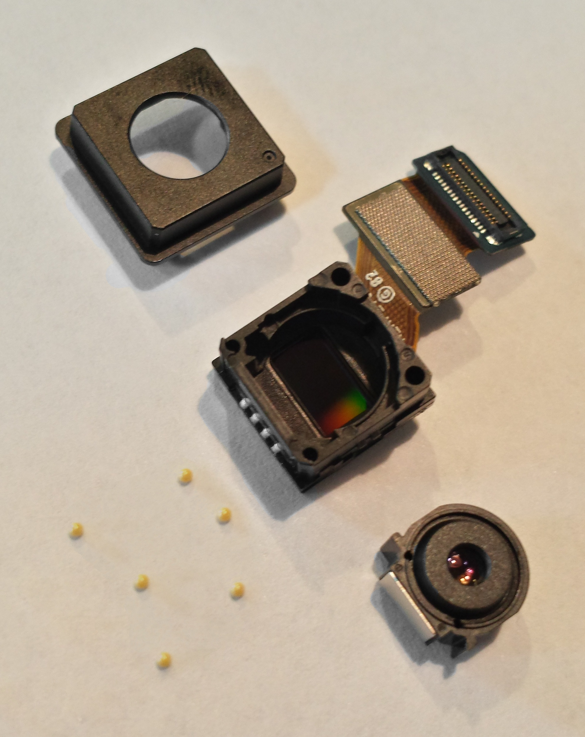 Image showing the components in the Samsung Galaxy S5 camera, including the floating element group, suspended by ceramic bearings and a small rare earth magnet.